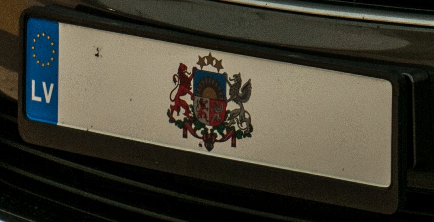 Latvia presidential license plate